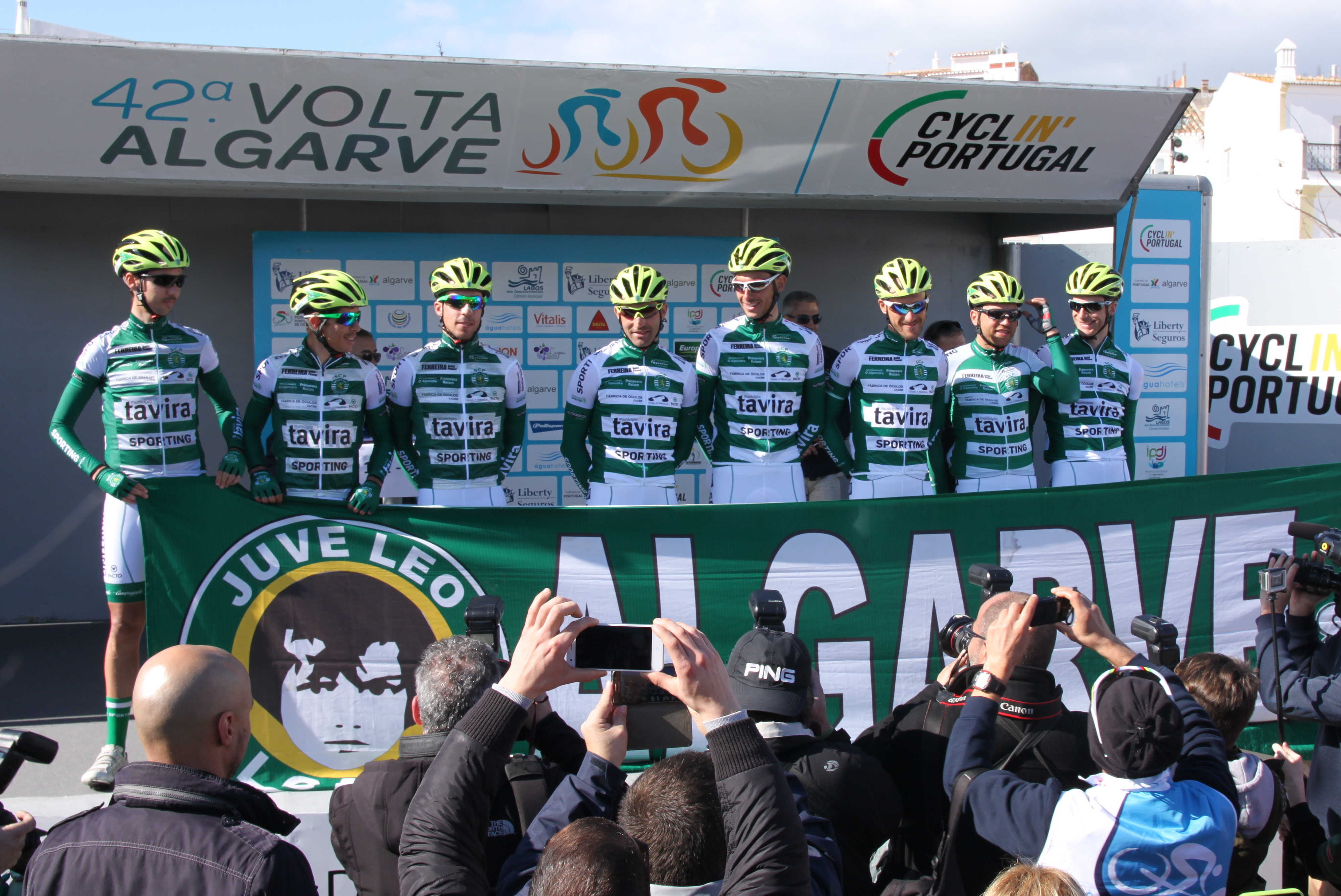 Portugal - Algarve - Lagos - 2016 Volta ao Algarve - Cycle team. Depicted team: Sporting-Tavira